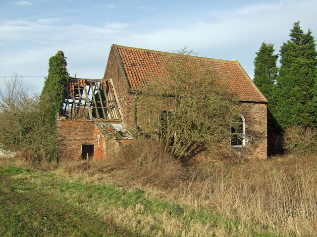 The Old Baptist Chapel Photo shows the old Baptist chapel (listed grade II) on Baptist Chapel Lane. The building dates from 1792 - see English Heritage IoE for further information.